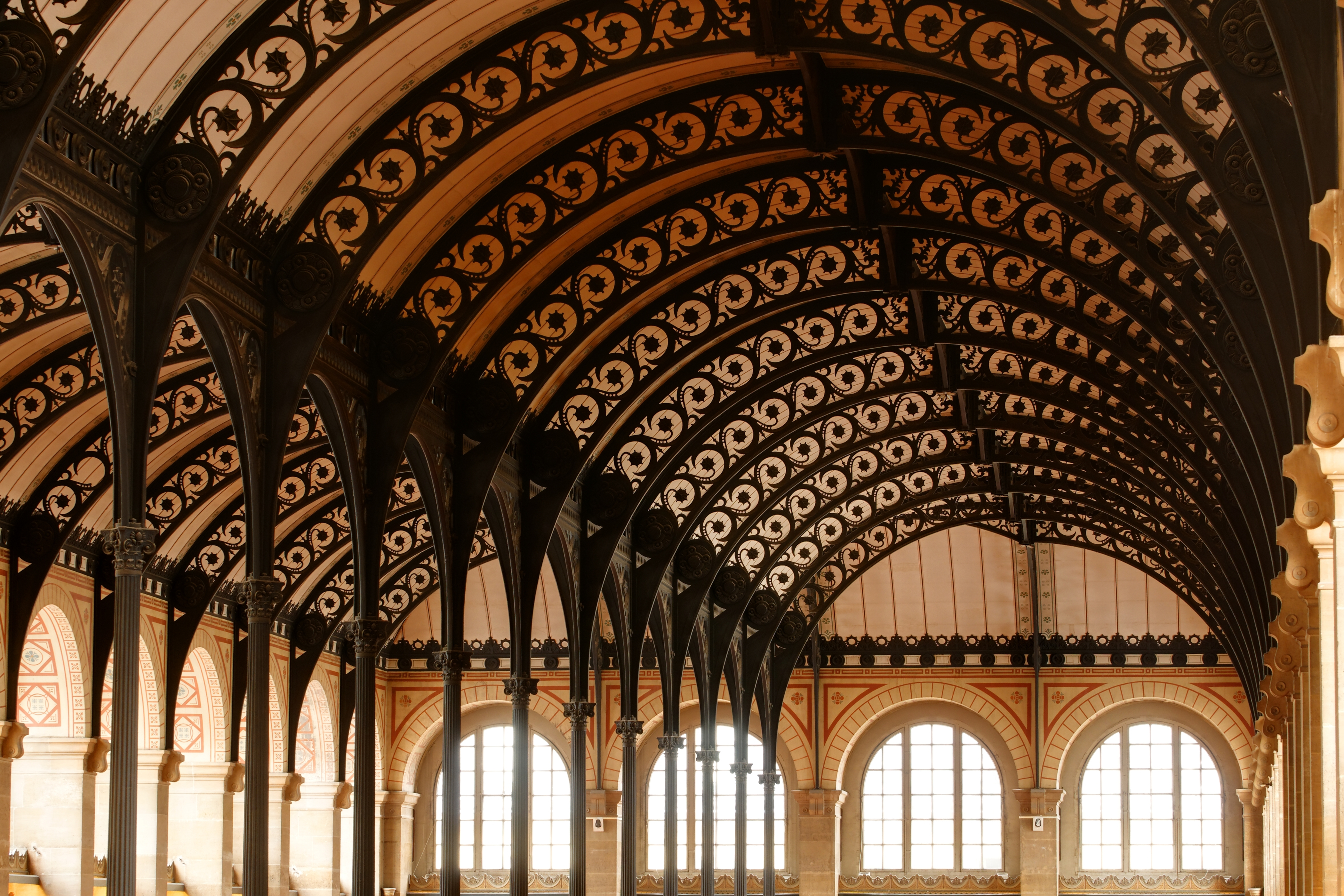 Cast iron supporting structure, ceiling of the reading room of the Bibliothèque Sainte-Geneviève, Paris.